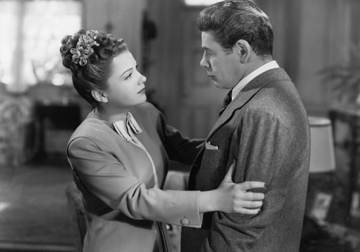 Anne Baxter and Paul Muni in Angel on My Shoulder (1946) - cropped screenshot